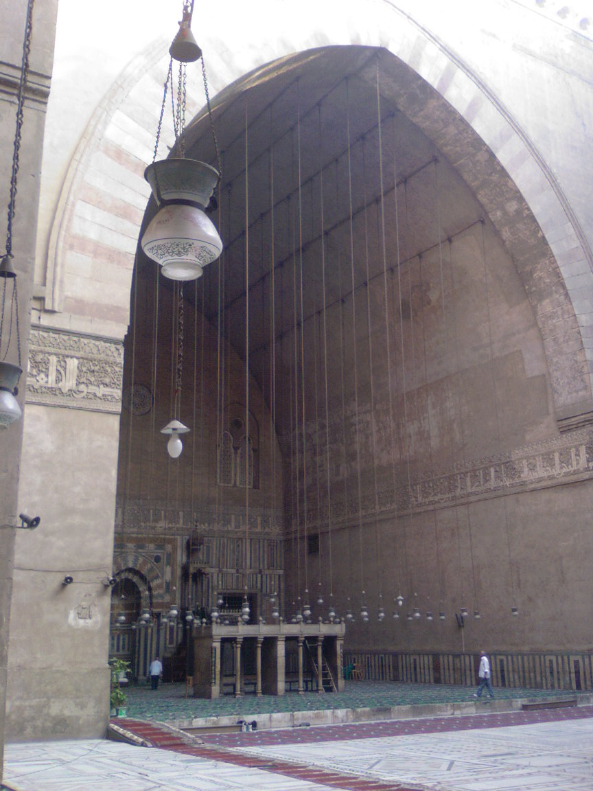 El Sultan Hassan mosque from inside in Cairo,Egypt مجامع السلطان حسن في القاهرة مصر